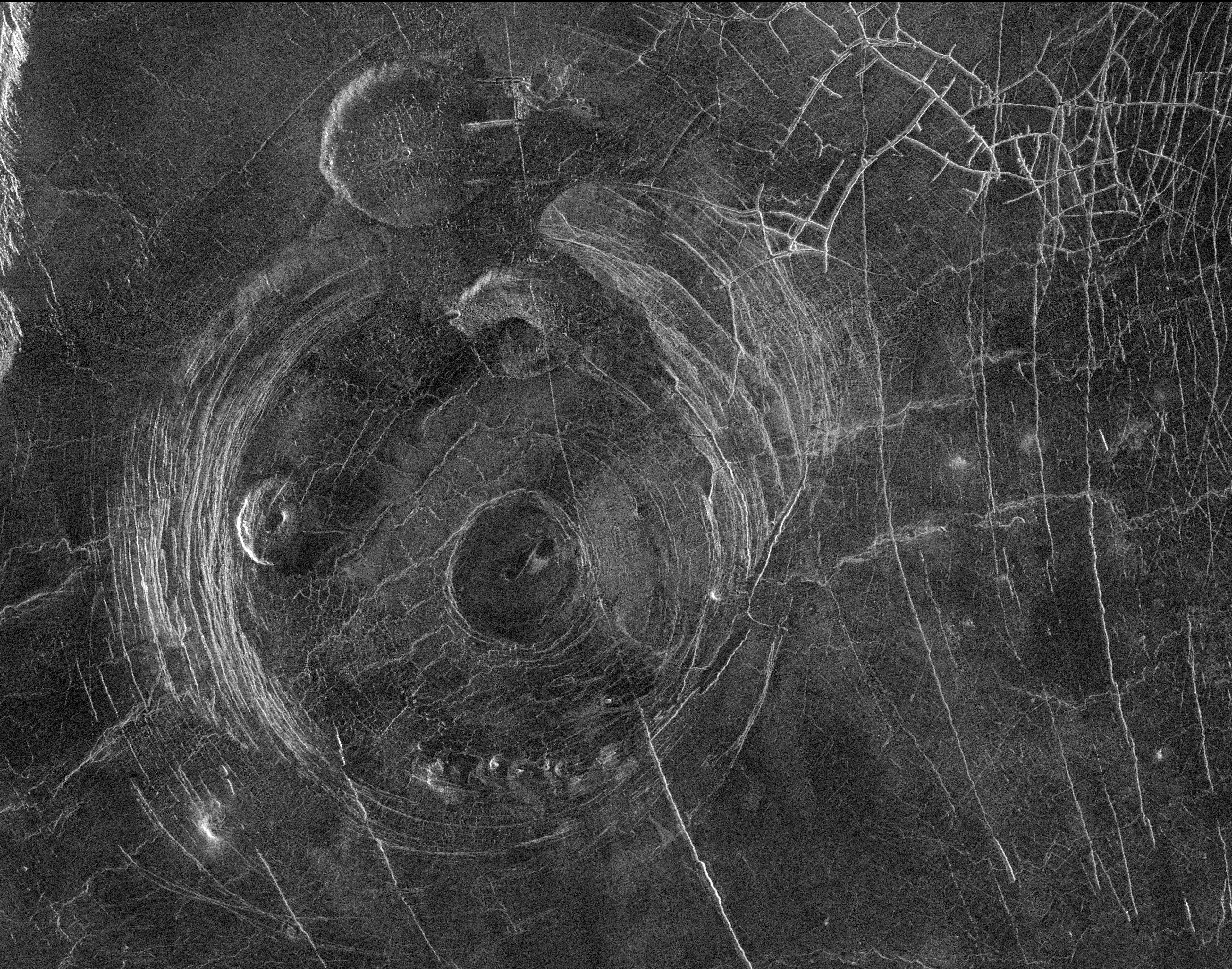 Original caption: This Magellan radar image shows a region approximately 300 kilometers (180 miles) across, centered on 59 degrees south latitude, 164 degrees east longitude and located in a vast plain to the south of Aphrodite Terra. The data for this image was obtained in January 1991. The large circular structure near the center of the image is a corona, approximately 200 kilometers (120 miles) in diameter and provisionally named Aine Corona. Just north of Aine Corona is one of the flat-topped volcanic constructs known as 'pancake' domes for their shape and flap-jack appearance. This pancake dome is about 35 kilometers (21 miles) in diameter and is thought to have formed by the eruption of an extremely viscous lava. Another pancake dome is located inside the western parts of the annulus of the corona fractures. Complex fracture patterns like the one in the upper right of the image are often observed in association with coronae and various volcanic features. They are thought to form because magma beneath the surface follows pre-existing fracture patterns. When eruptions or other movements of the magma occur, the magma drains from the fractures and the overlying surface rock collapses. Other volcanic features associated with Aine Corona include a set of small domes, each less than 10 kilometers (6 miles) across, located along the southern portion of the annulus of fractures, and a smooth, flat region in the center of the corona, probably a relatively young lava flow. The range of volcanic features associated with coronae suggests that volcanism plays a significant role in their formation.